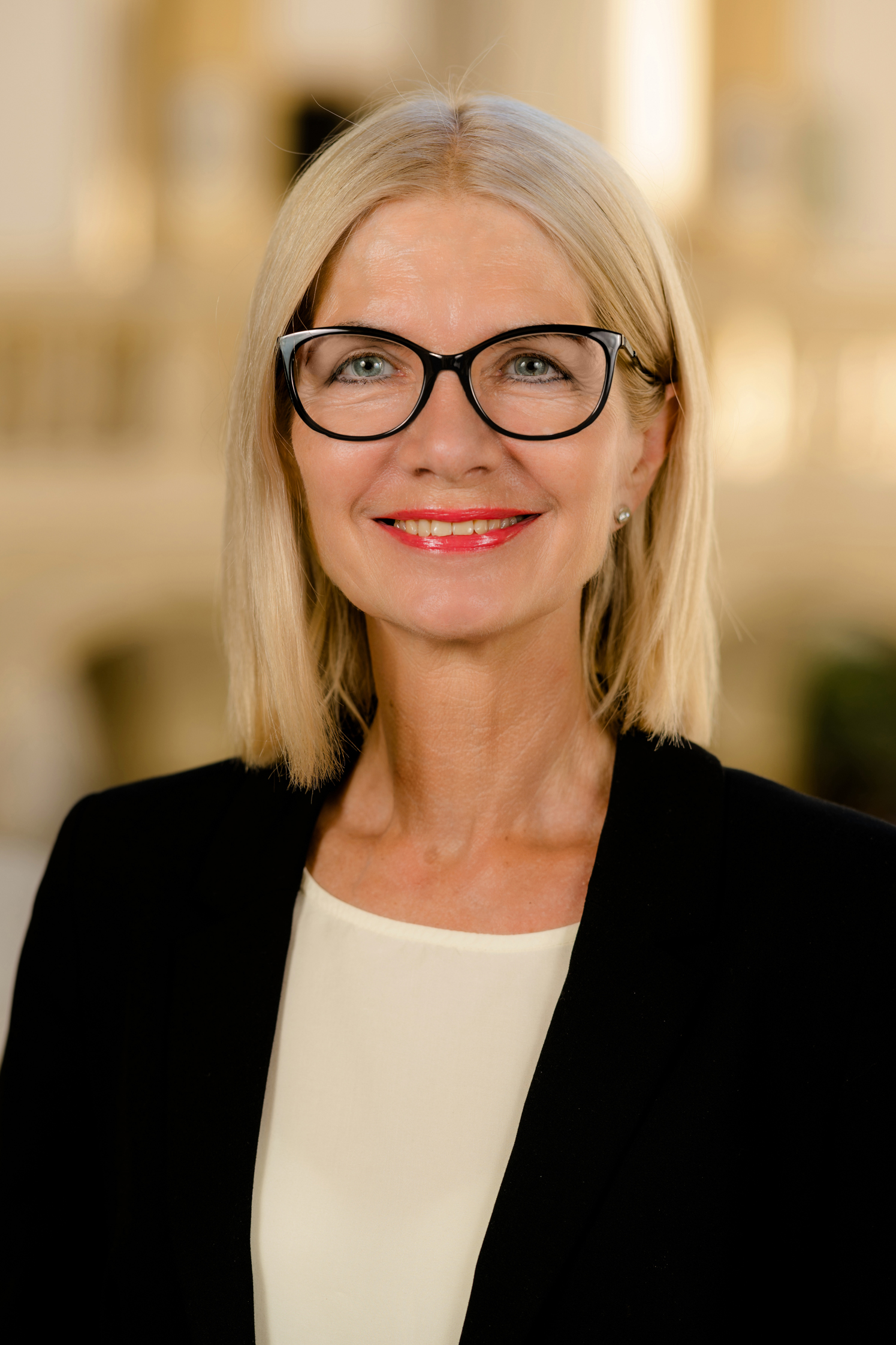 © LT-Stmk/Spekner Wolfgang